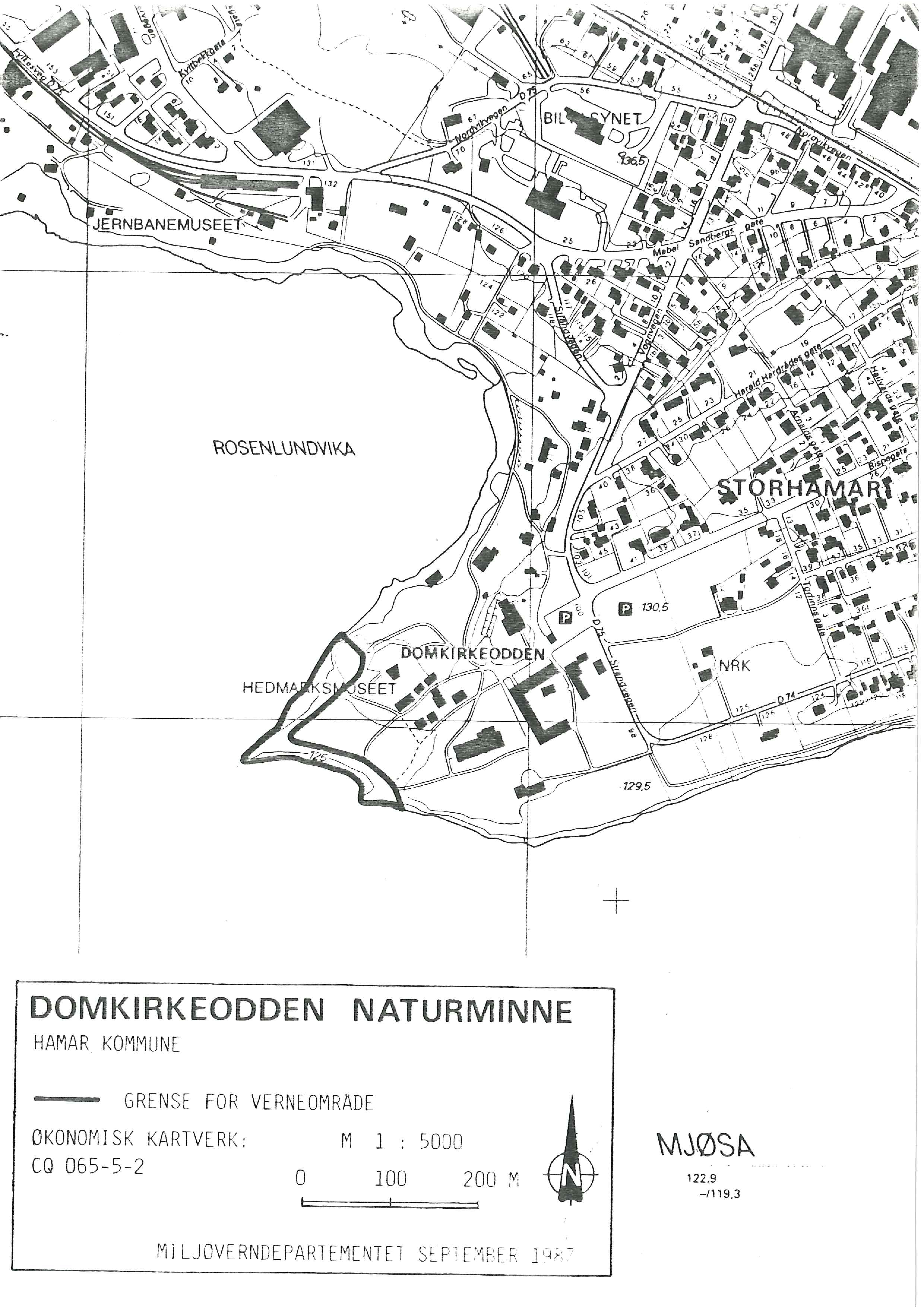 The legal protection map for the location Domkirkeodden naturminne